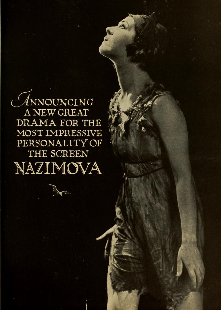 Advertisement in Moving Picture World for Out of the Fog (1919) with Alla Nazimova.